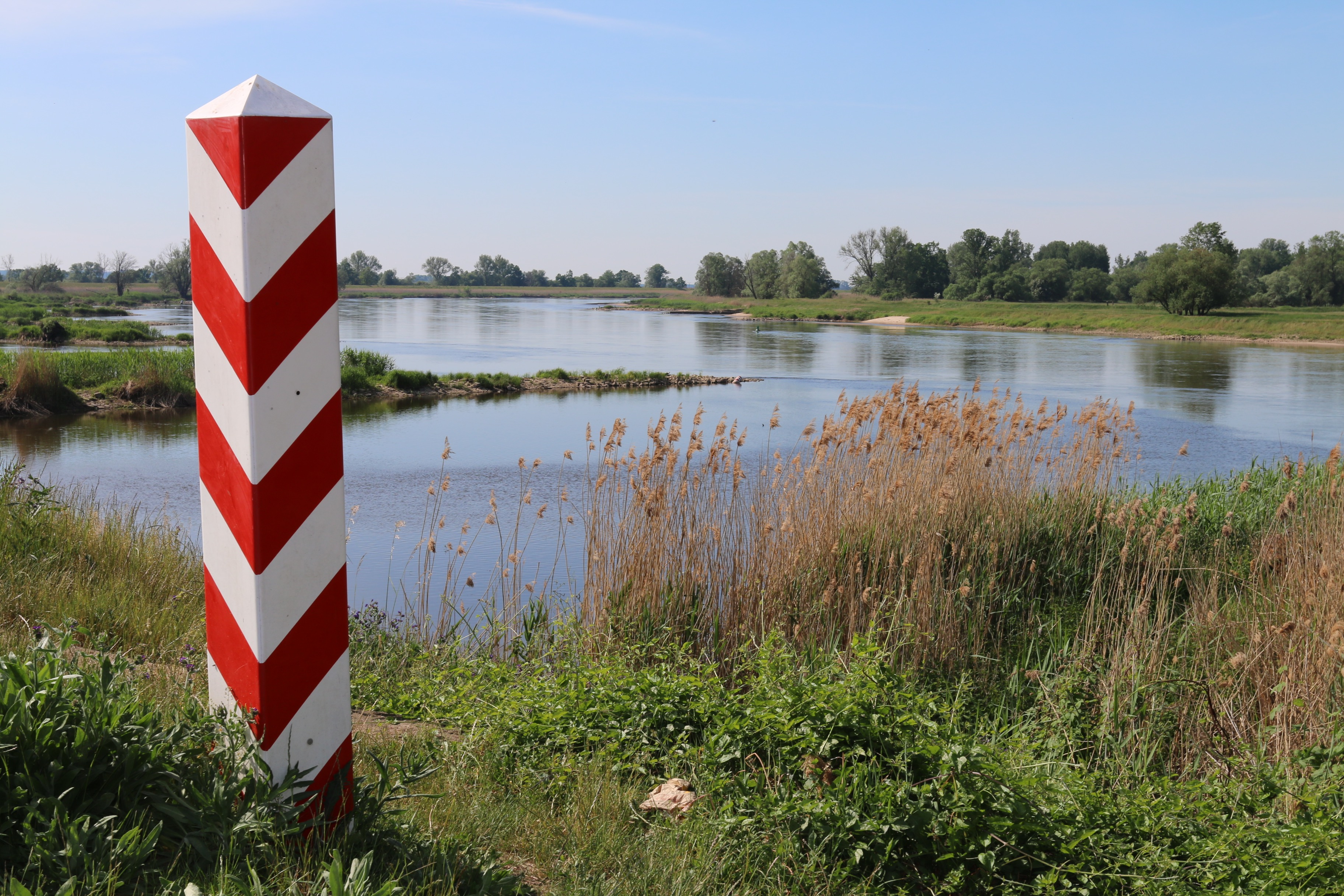 Boundary Poland - Germany at the height of the city Kostrzyn